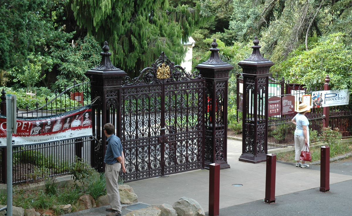 Entrance to the Hobart botanical gardens. Taken December 2007